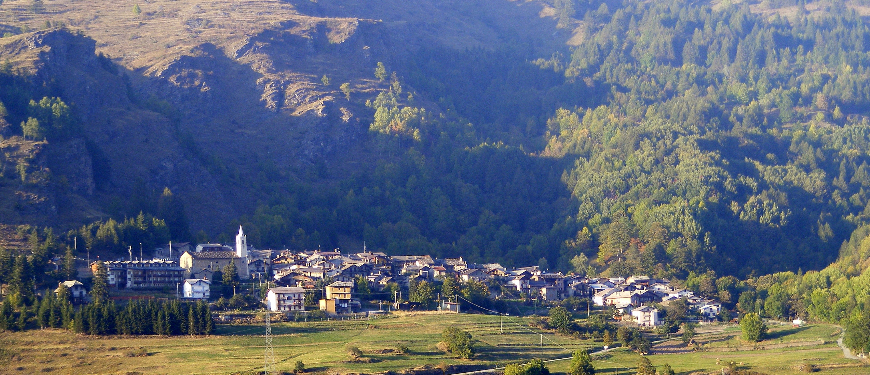 Usseaux (TO, Italy) from Albergian's valley